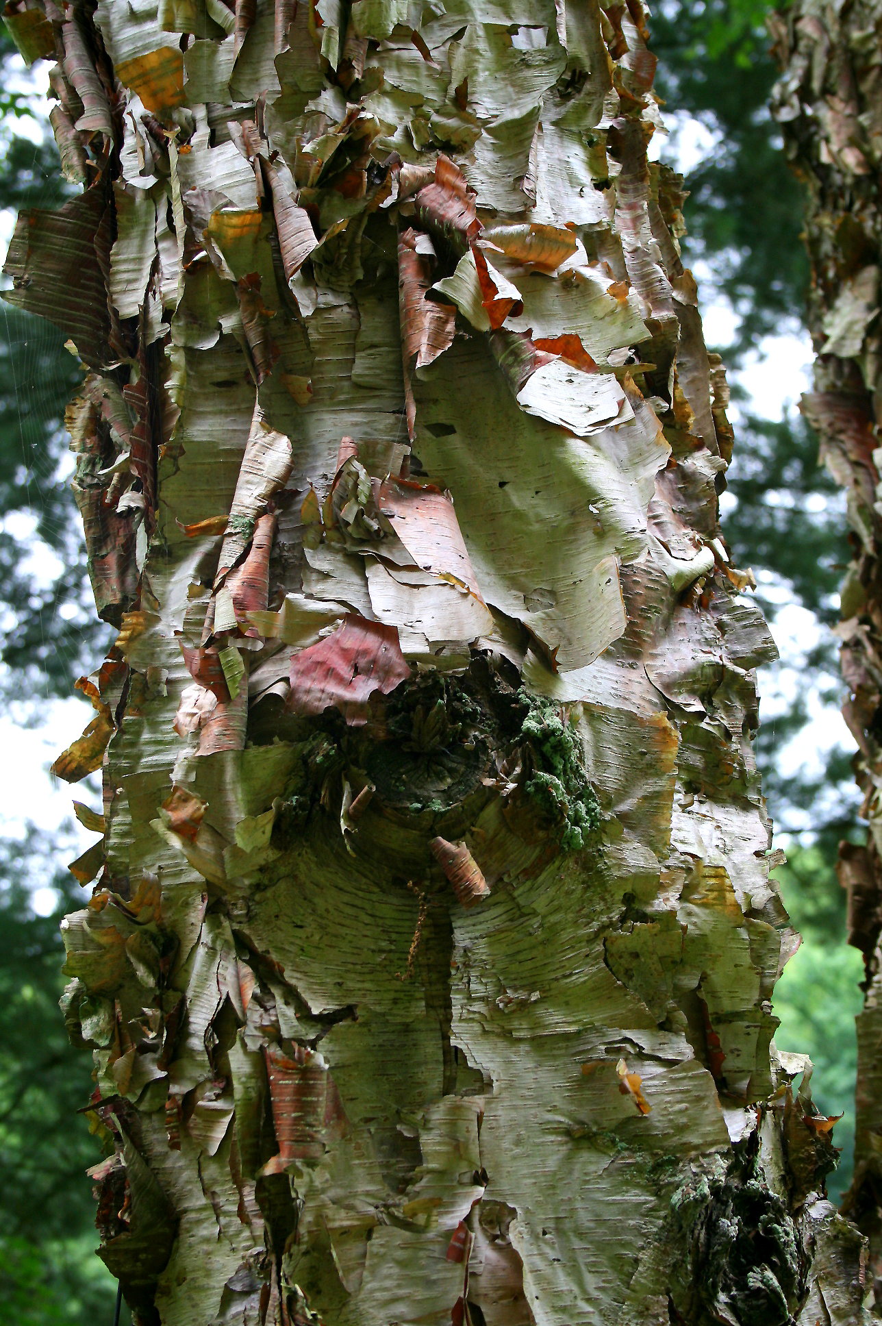 Dahurian birch (Betula davurica) Planting date : 1967 Precise location : (S37) Arboretum Robert Lenoir - Rendeux (Belgium). Walon: Bèyôle di Dahrian (Betula davurica) Date do plantis' : 1967 Place rècta : (S37) Arboretum Robert Lenoir - Rindeu (Bèljike)